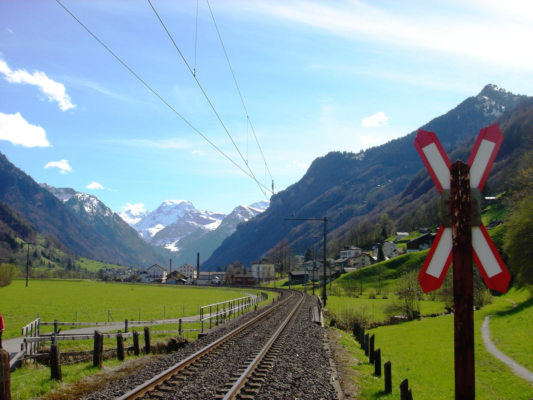 Leuggelbach Switzerland - Taken from the bike trail in the Kanton Glarus along the Lindth River from Glarus to Leuggelbach.